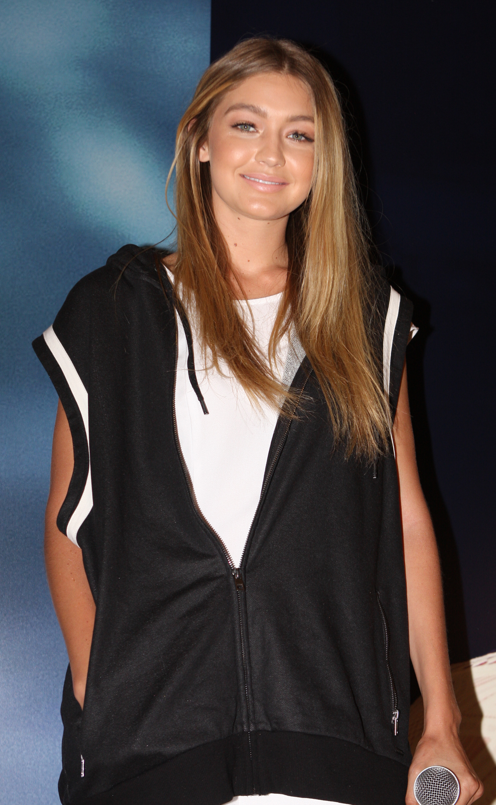 Gigi Hadid in Sydney to celebrate the launch of the Guess Spring Launch 2015 Campaign